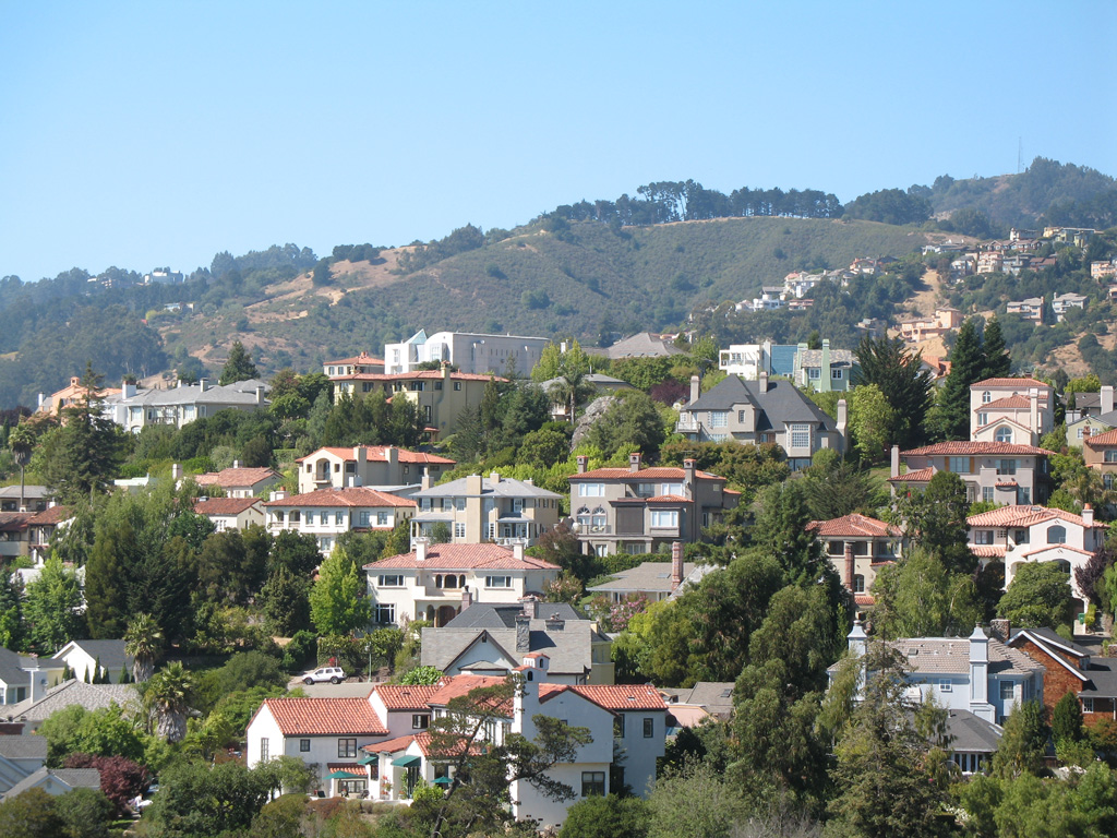 Upper Rockridge neighborhood — in Oakland, California. by rbotman1